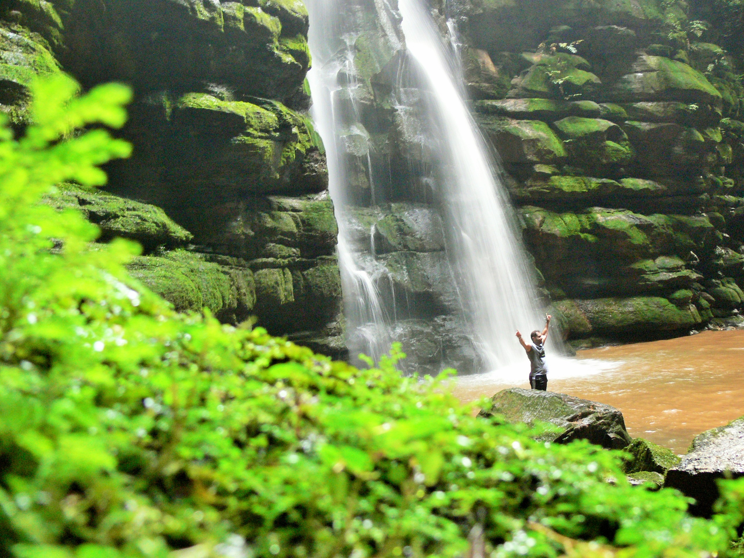 That enviroment show us more impressive each passe for waterfall. And when you see the waterfall you believe that you have found the missing link